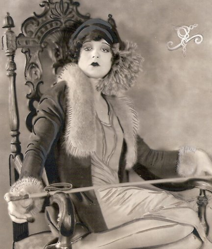 Still from the American comedy romance film Kiss Me Again (1925).